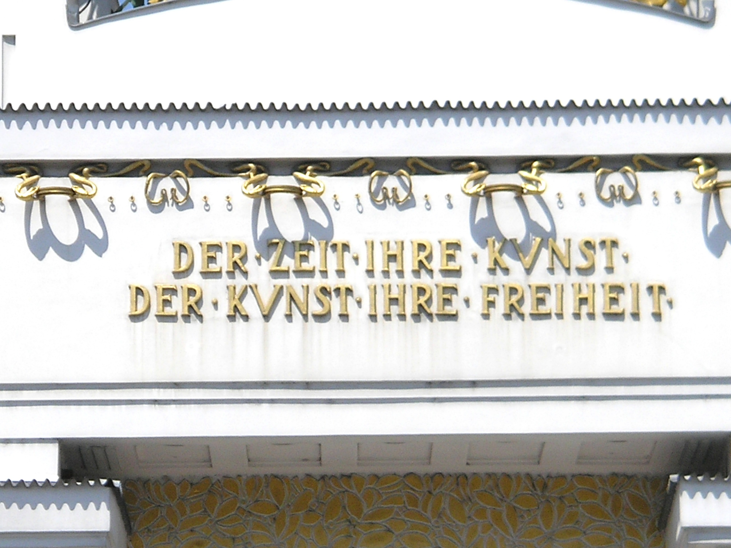 Austria, Vienna, Secession hall